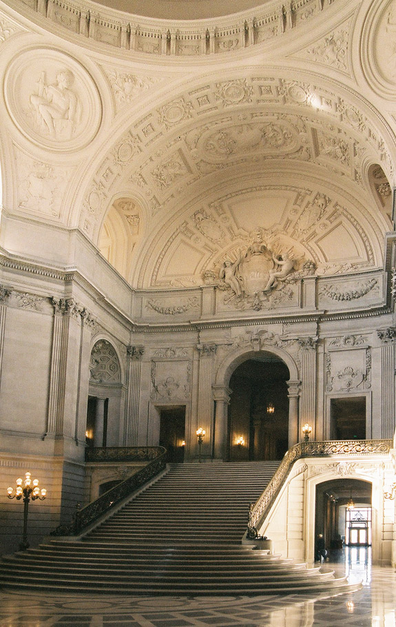 Interior stairway of San Francisco City Hall. Image by User:Leonard G. On the south-side base of the staircase, the plaque reads: The Grand Staircase of San Francisco City Hall is named in honor of Charlotte Mailliard Shultz in recognition of the many memorable civic celebrations she hosted in the Rotunda during her notable service as Chief of Protocol for San Francisco. A dedication ceremony was held on December 14, 2003 with Mayor Willie L. Brown, Jr. , Governor Arnold Schwarzenegger, U.S. Senator Dianne Feinstein and Mayor-elect Gavin Newsom. Contents 1 Focal point for protest 2 References 3 External links 4 Licensing 5 Original upload log Focal point for protest These stairs were the site of an anti-demonstrator police action during hearings by the House Un-American Activities Committee, held in May, 1960. About 200 chanting protesters occupying the stairs and upper level were blasted with water from fire hoses and dragged down these stairs. HUAC had made and promoted a movie, Operation Abolition[1][2][3][4], which was shown to military and governmental personnel. Events were placed out of sequence and out of context in this movie, as shown by a counter-production, Operation Correction, which became a popular exhibition on college campuses. While San Francisco is still a place of protests and demonsrations, both liberal and consevative, most typically occur out in the Mall, where there is room for any number of crowds to gather. References ↑ "Operation Abolition," 1960 - YouTube ↑ "Operation Abolition", Time magazine, 1961. ↑ "Operation Abolition", Time magazine, Friday, Mar. 17, 1961. ↑ External links Closeup of the gleaming steps]